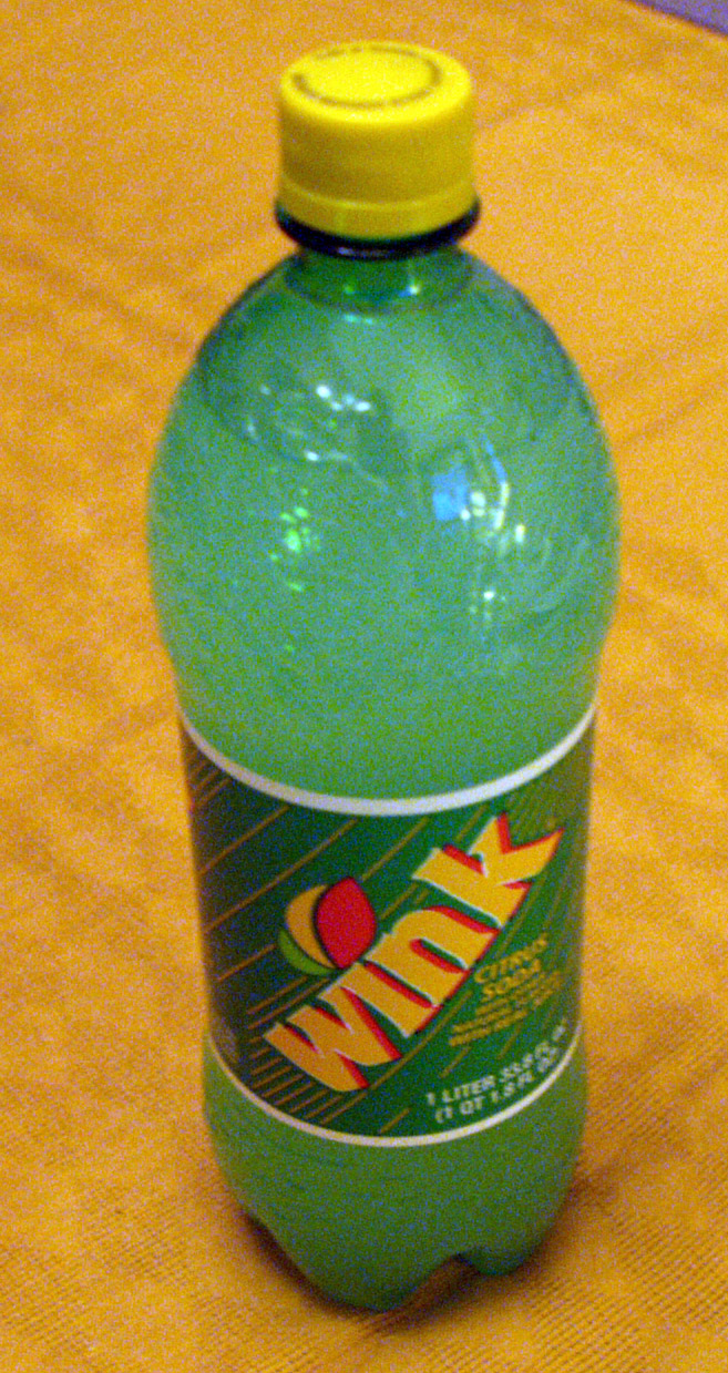 1-liter bottle of Wink citrus soda on golden background 2005